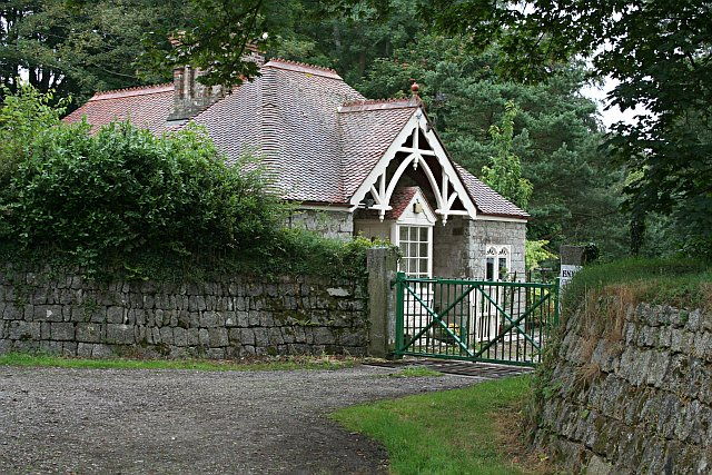 The Lodge. This was a gatehouse to the Enys Estate. Enys House itself is still over a mile away through the estate.